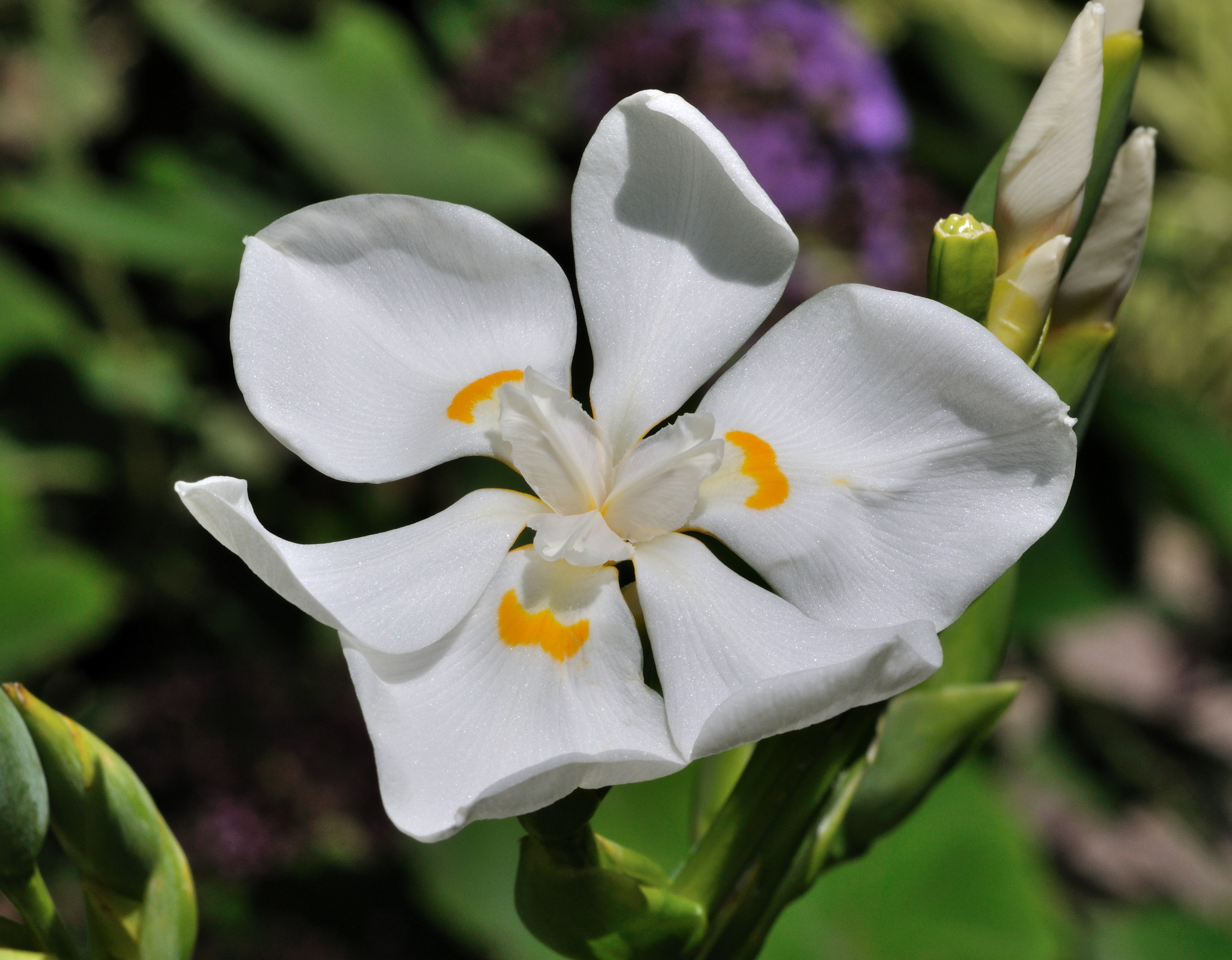 Lord Howe Wedding Lily (Dietes robinsoniana) in the botanical garden of Puerto de la Cruz, Tenerife, Spain.